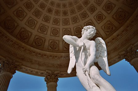 Cupola of the Temple of Love.